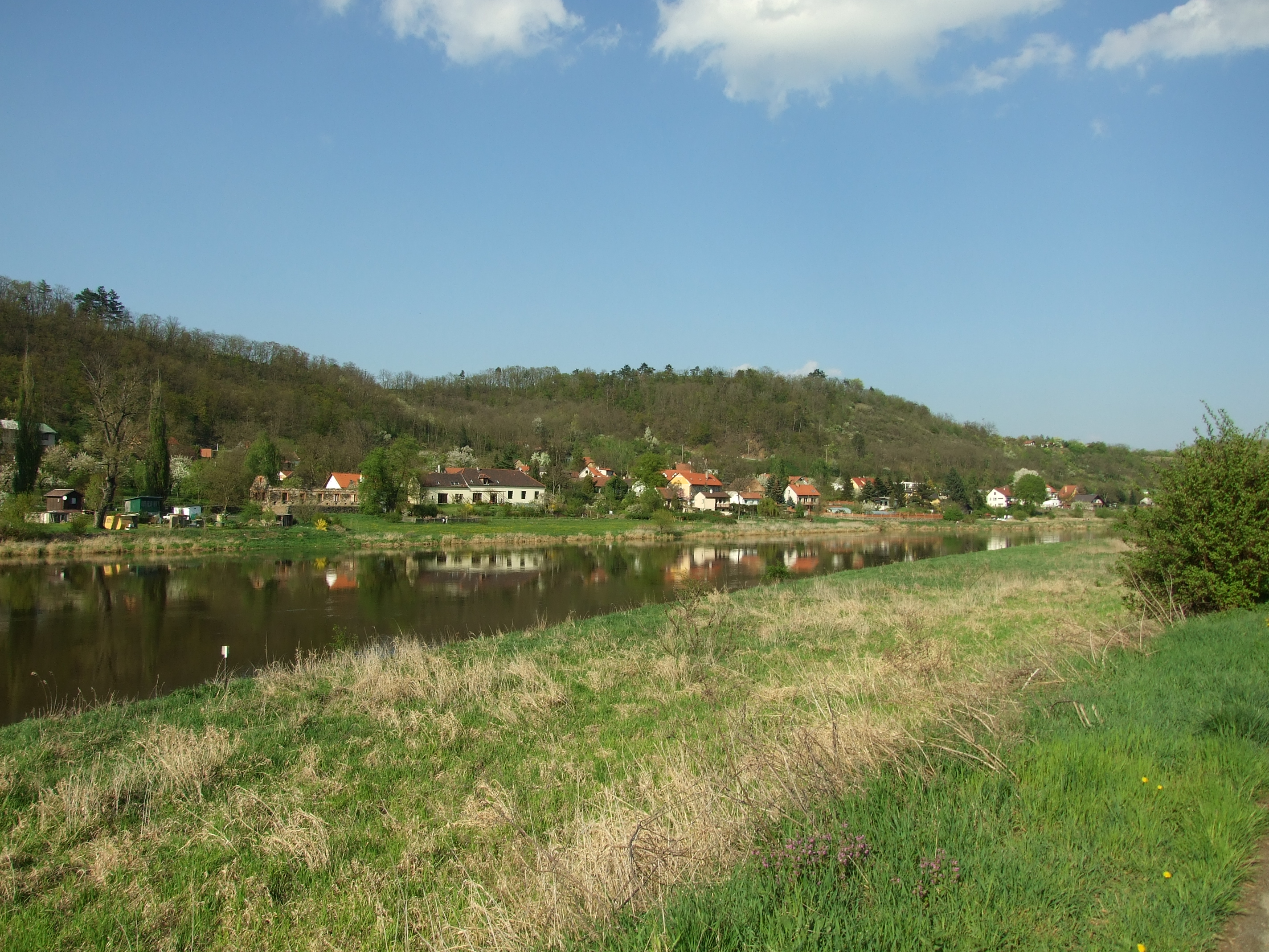 Husinec, Prague-East District, Central Bohemian region, CZhelp